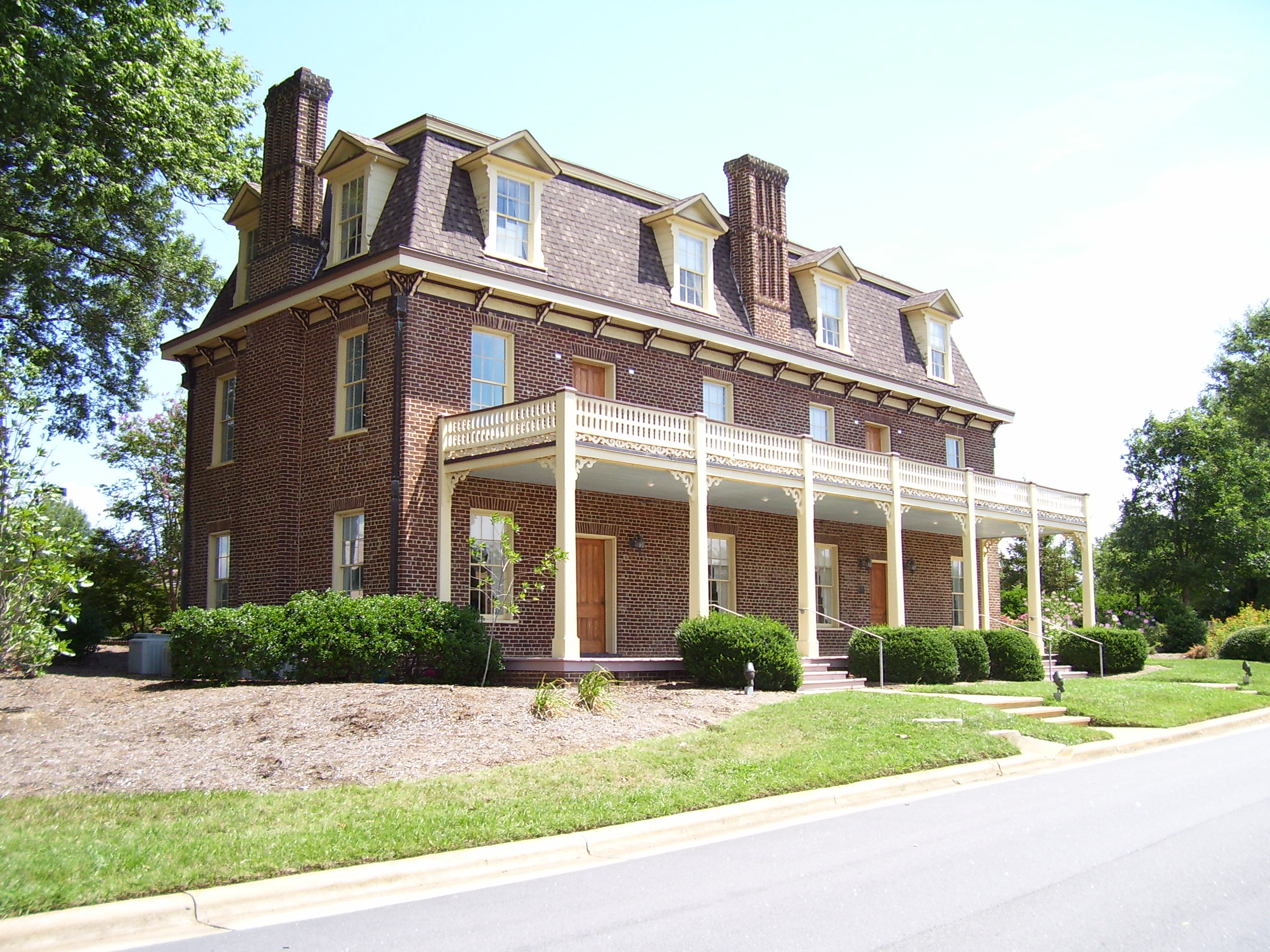 Picture of the renovated Page-Walker Hotel (now local history museum). Picture taken in July, 2007 by Heavenly Hedgehog (English Wikipedia User). 23 July 2007 (original upload date) (log).